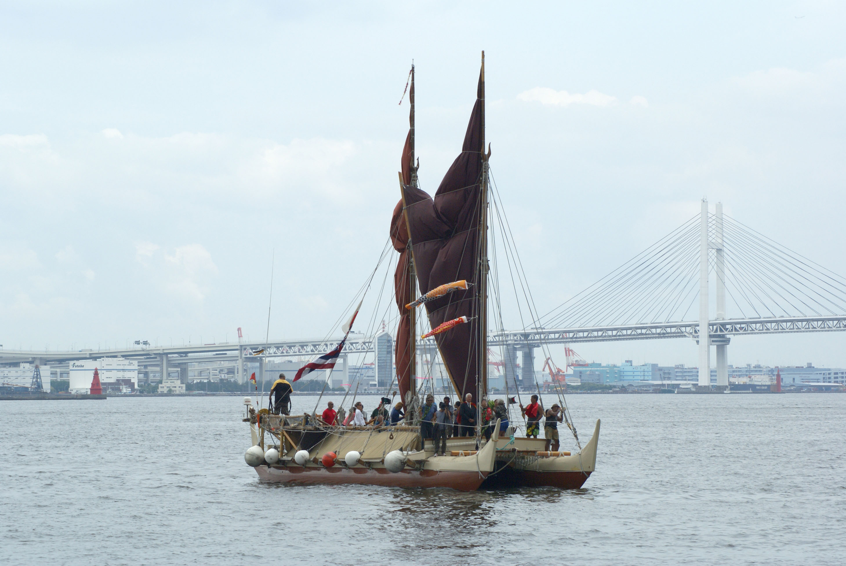 Hawaiian Voyaging Canoe Hokule'a arrives its final destination, Yokohama Bay.